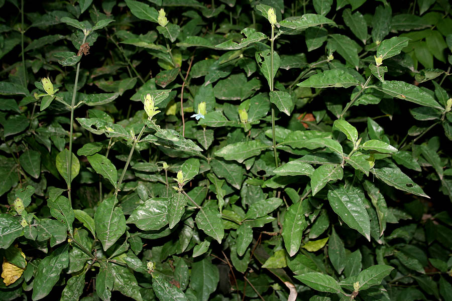 Ecbolium ligustrinum (Vahl) Vollesen (syn. Justicia ecbolium L.; J. ligustrina Vahl) - green ice crossandra, green shrimp plant, turquoise crossandra • Hindi: udajati • Kannada: kappubobbuli, kappukuruni • Malayalam: karinkurinni, kuranta, koranda • Marathi: धाकटा अडुळसा dhakta adulsa, एकबोली ekboli, रान आबोली ran aboli • Oriya: piccokatho • Sanskrit: निल साहचर nila-sahacarah, साहचर sahacarah, sairyakah • Tamil: நீலாம்பரி nilambari • Telugu: chikatiquratappa, నక్కతోక nakkatoka, pachavadambaramu - in Hyderabad, India.